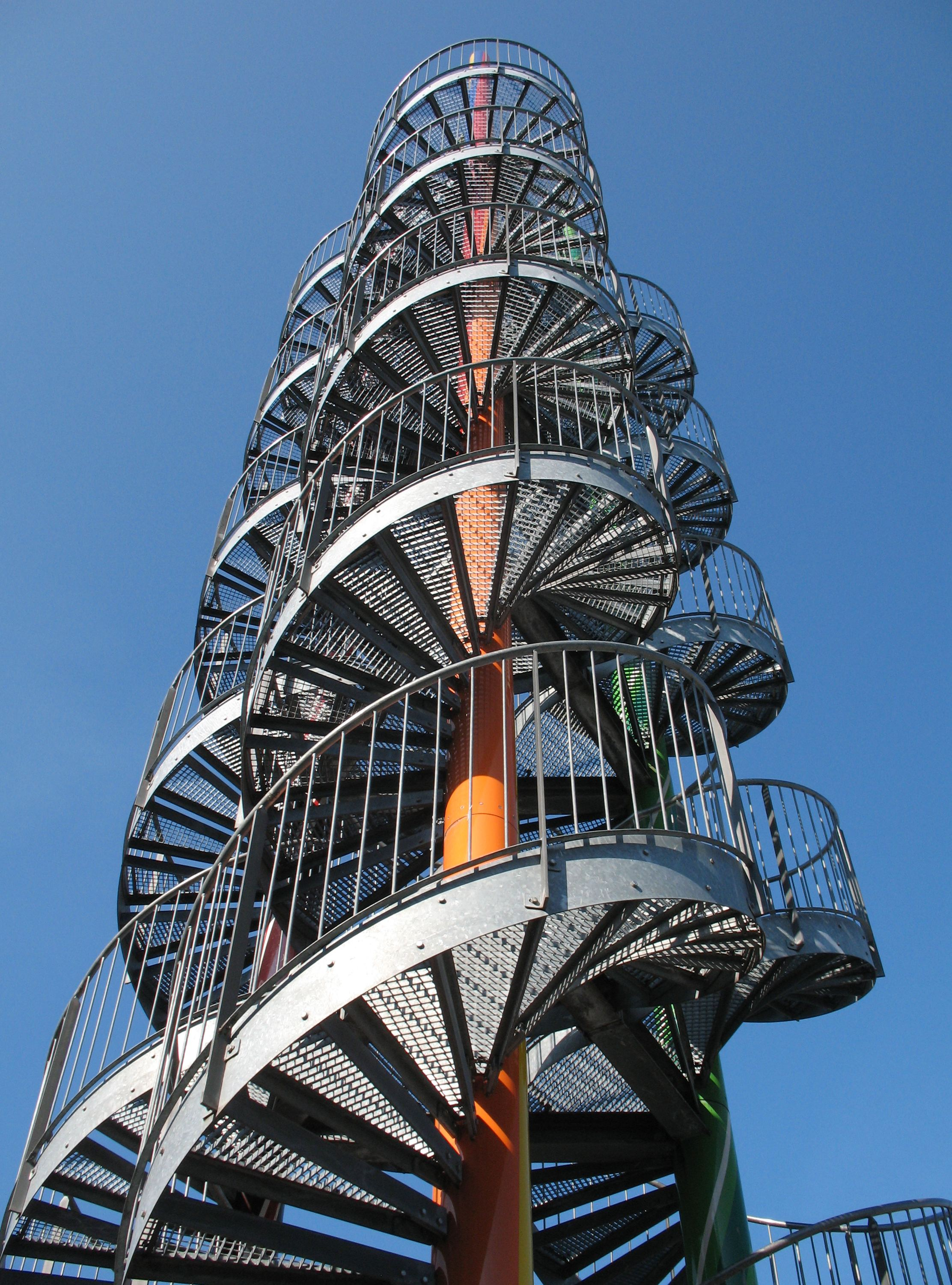 Observation tower in Hamburg-Allermöhe, Germany